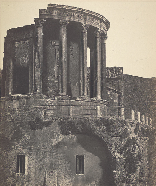 Robert MacPherson (1811-1872) - Temple of Vesta at Tivoli, circa 1858. Catalogue # 681.